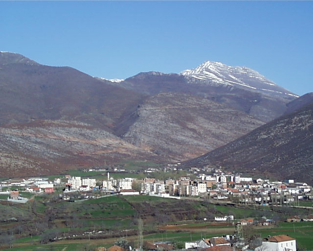 The view of Kranam Peak from the town of Krume gives one a sense of the mountainlands of 'Arid Has.' The snow covered Pashtrikut group peeps out in the center upper right.